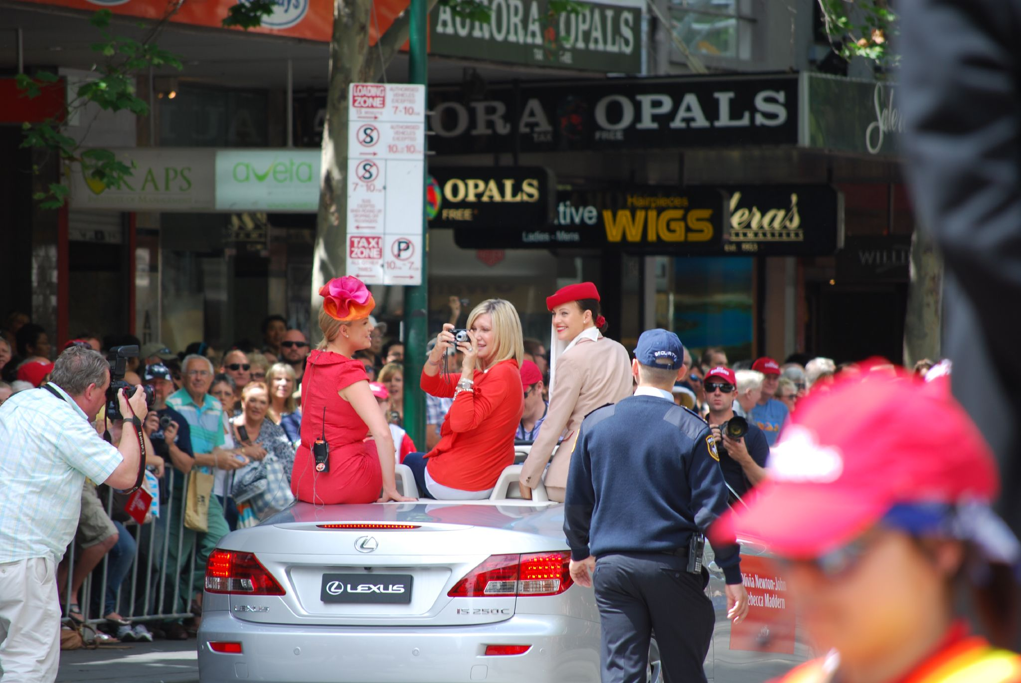 Pin & Win - Melbourne Cup Carnival The Victoria Racing Club are proud to launch the Melbourne Cup Community Fund and announce the Olivia Newton-John Cancer and Wellness Centre Appeal as the fund's main beneficiary for 2009. ... Proceeds from the Pin and Win program will assist the Olivia Newton-John Cancer and Wellness Centre Appeal to create a specially designed cancer centre at the Austin Hospital in Melbourne, building on the hospital's 127 years of cancer care and expertise. Emirates Melbourne Cup Parade - That's Melbourne Attracting over 60,000 people to the City of Melbourne, the parade showcases past champion horses and celebrates the rising stars of the Emirates Melbourne Cup. A colourful, fun and entertaining parade in the City of Melbourne for Members of the general public, culminating at Federation Square. Parade commences in Bourke Street Mall, travels along Swanston Street and concludes at Federation Square. 12:00 - 13:00